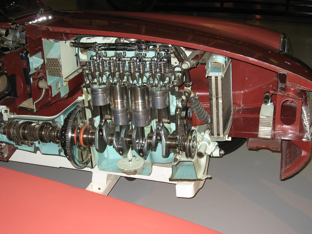 A cut up MG i have more pictures of this .at the British motoring heritage museum gaydon .